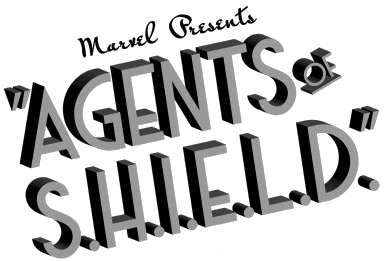 Text logo seen from the title card for episodes 701 and 702 of Agents of S.H.I.E.L.D. in the style of old noir films. Image was extracted from the source screenshot, and slightly color altered for better presentation as a .png file.